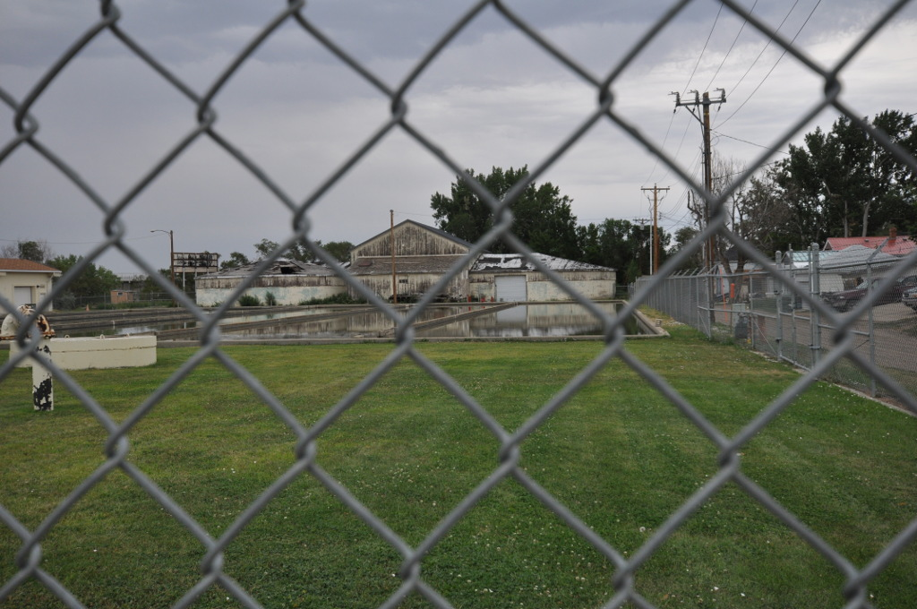 Northern Pacific Railroad Settling Tanks, Glendive, Montana. The tanks are in the background; the fields of the city water filtration plant are in the foreground.